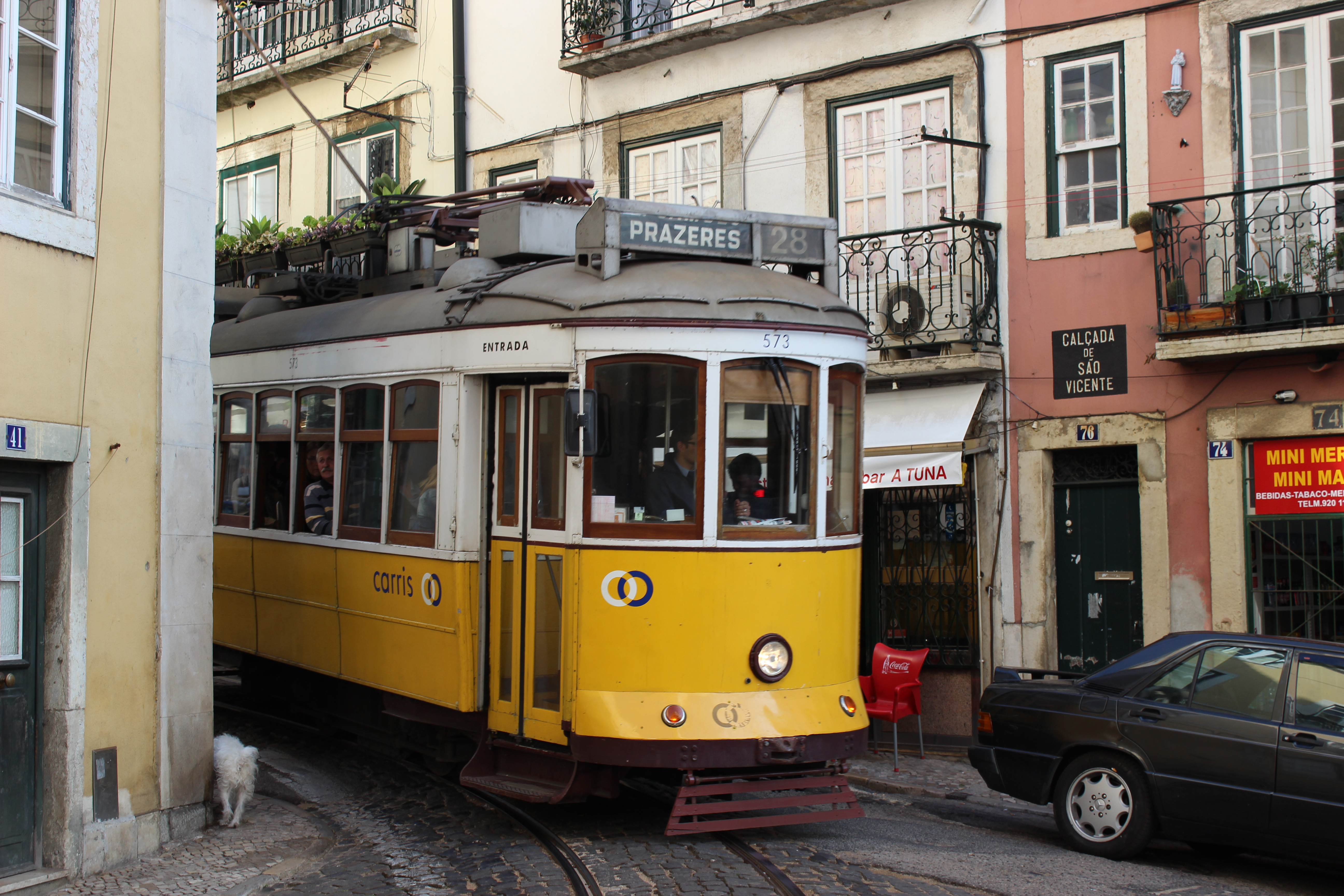 Lisbon